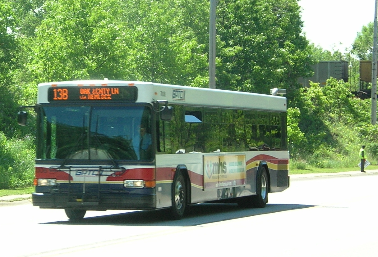 Gary Public Transportation Corporation Route 13 bus northbound on Grand Street in the Miller Beach neighborhood in Gary, Indiana. Norfolk Southern freight train in background.